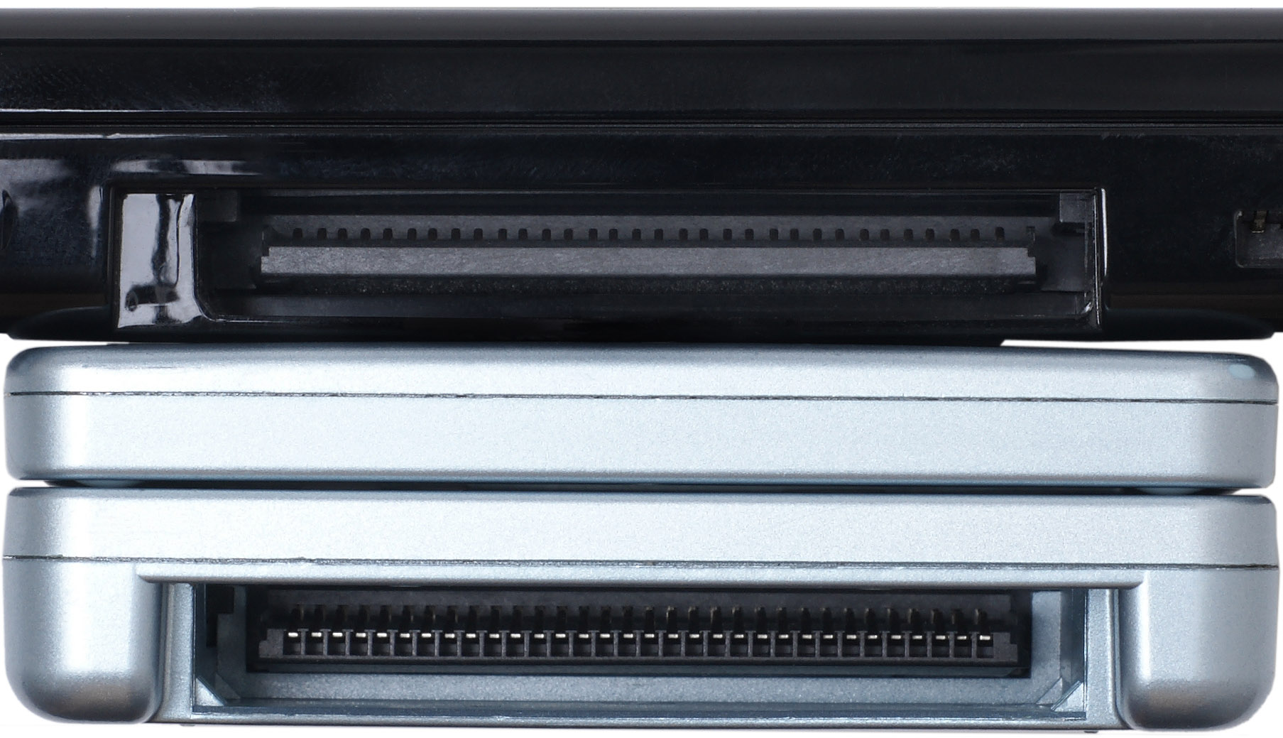 The difference in Game Boy slots on the Game Boy Advance SP and the Nintendo DS Lite. The Nintendo DS has preventions that keep you from sticking a regular Game Boy game into it.